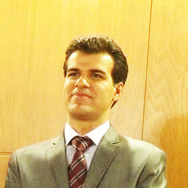 Sadjad-pourghanad-sajjad-poorghanad-sajad-pourghannad-poorghannad